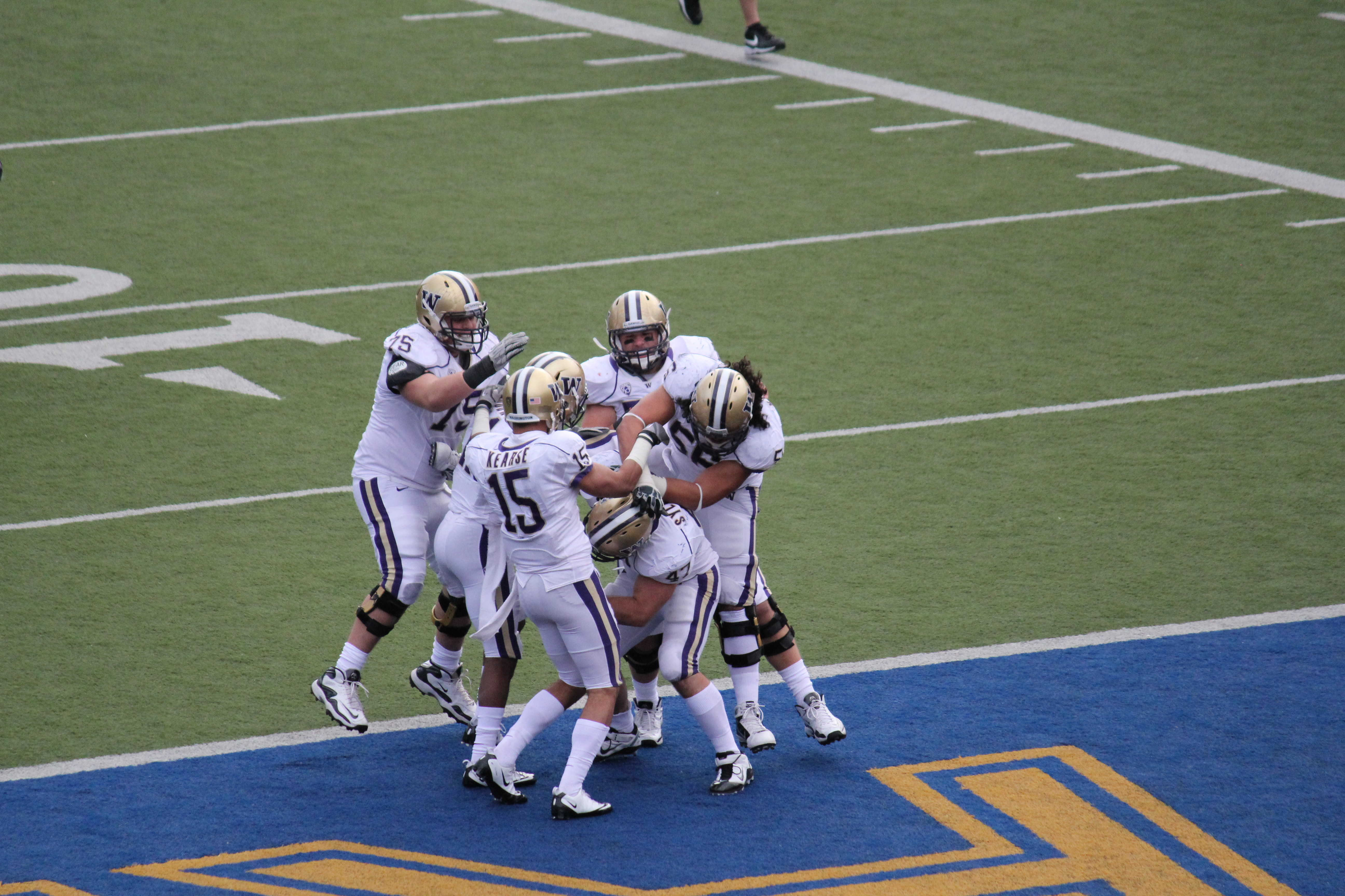 Washington players celebrate wide receiver D'Andre Goodwin's touchdown in a road game against Cal, which the Huskies won 16-13.